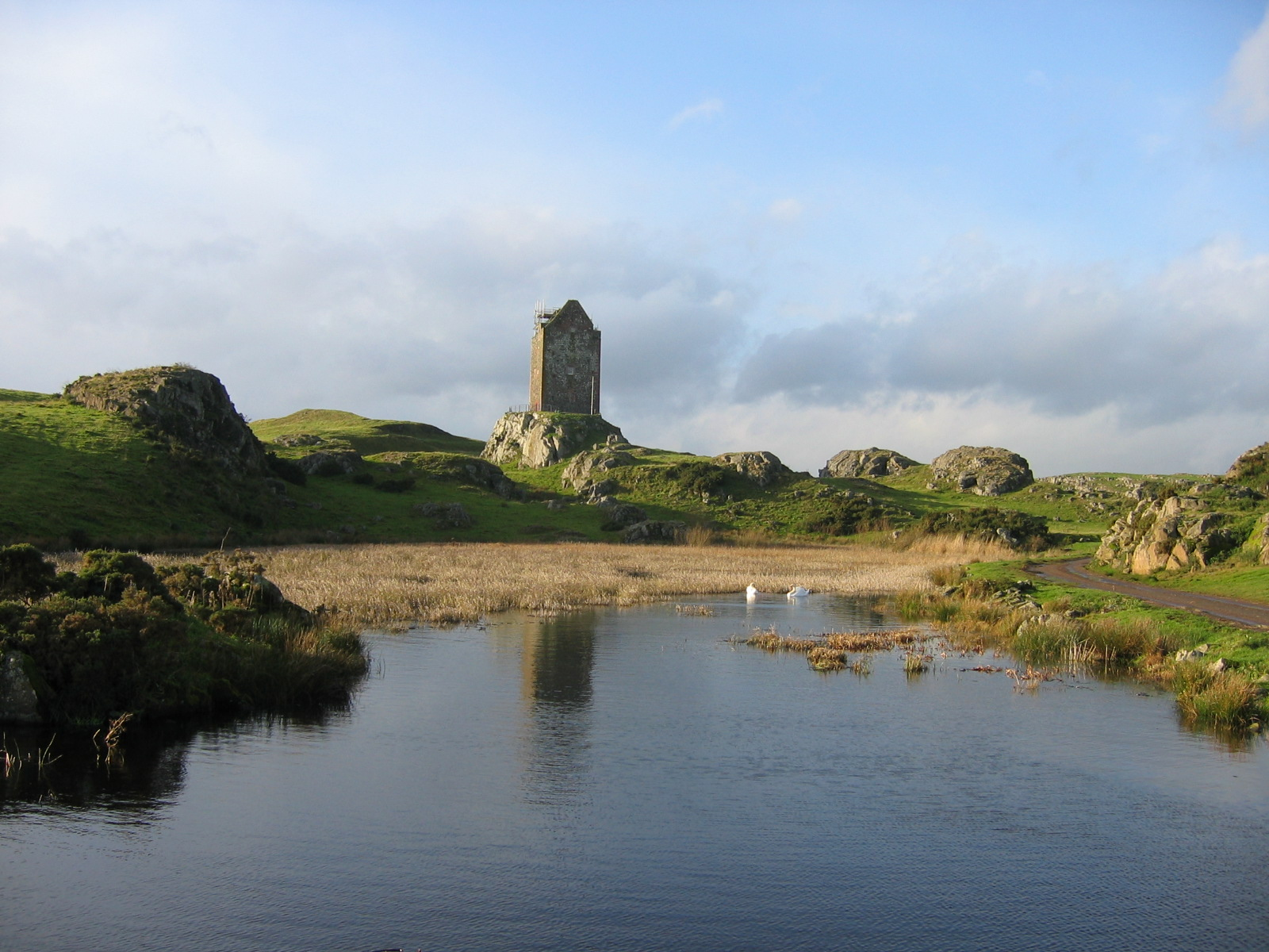 Smailholm Tower, Scotland, seen across the lochan from Sandyknowe.